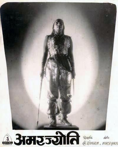 Film Poster of Amar Jyoti (1936)